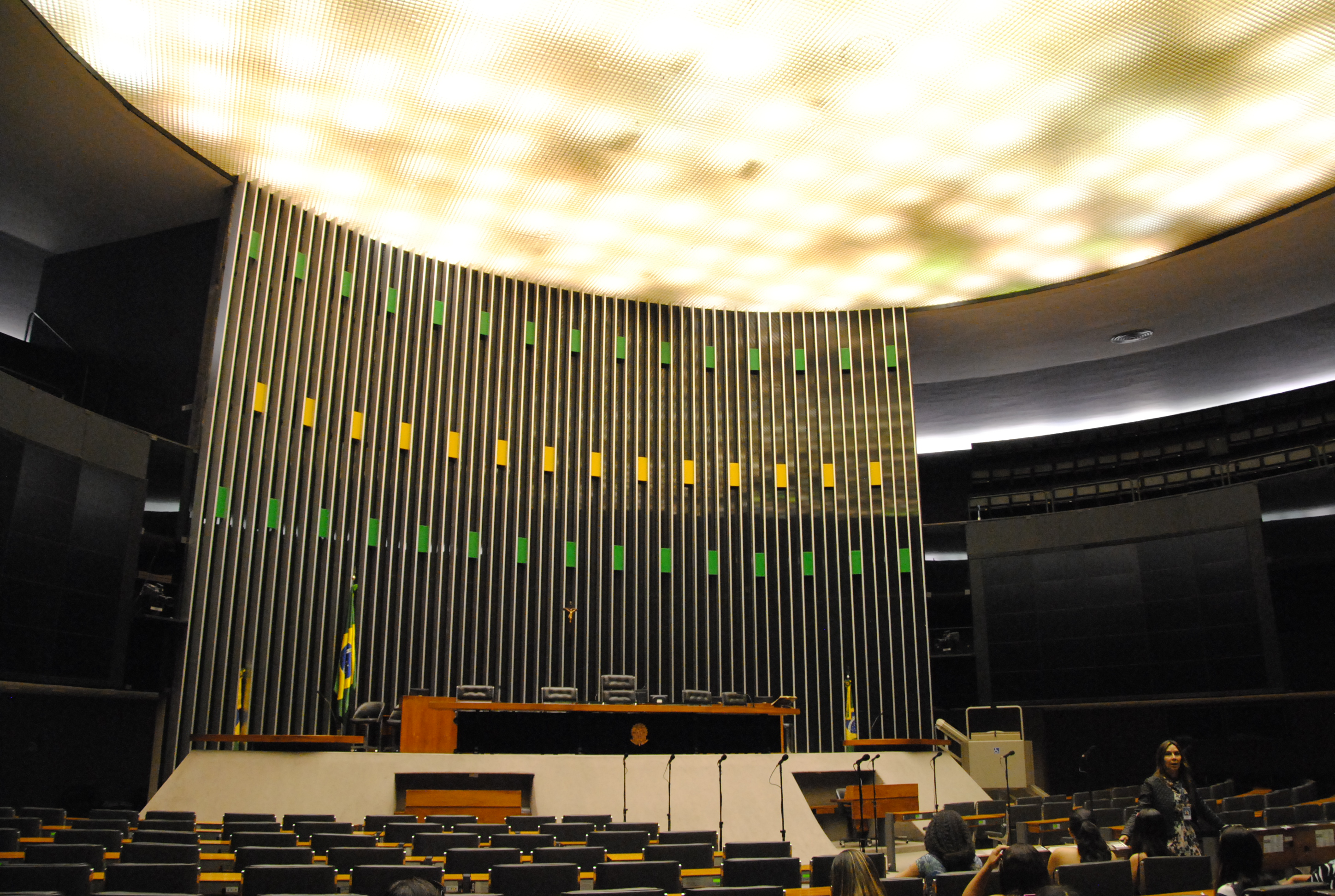 Chamber of Deputies. Brasília, the capital of Brazil.